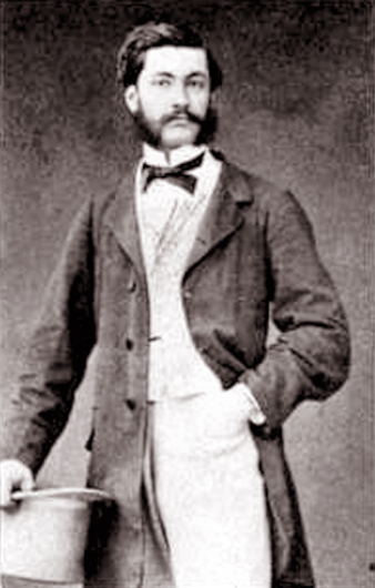 A photograph of Louis Le Prince, inventor of motion pricture film. Circa 1885. Courtesy of Armley Mills Industrial Museum, Leeds.